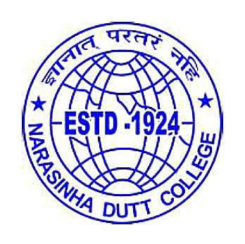 This emblem belongs to Narasinha Dutt College.